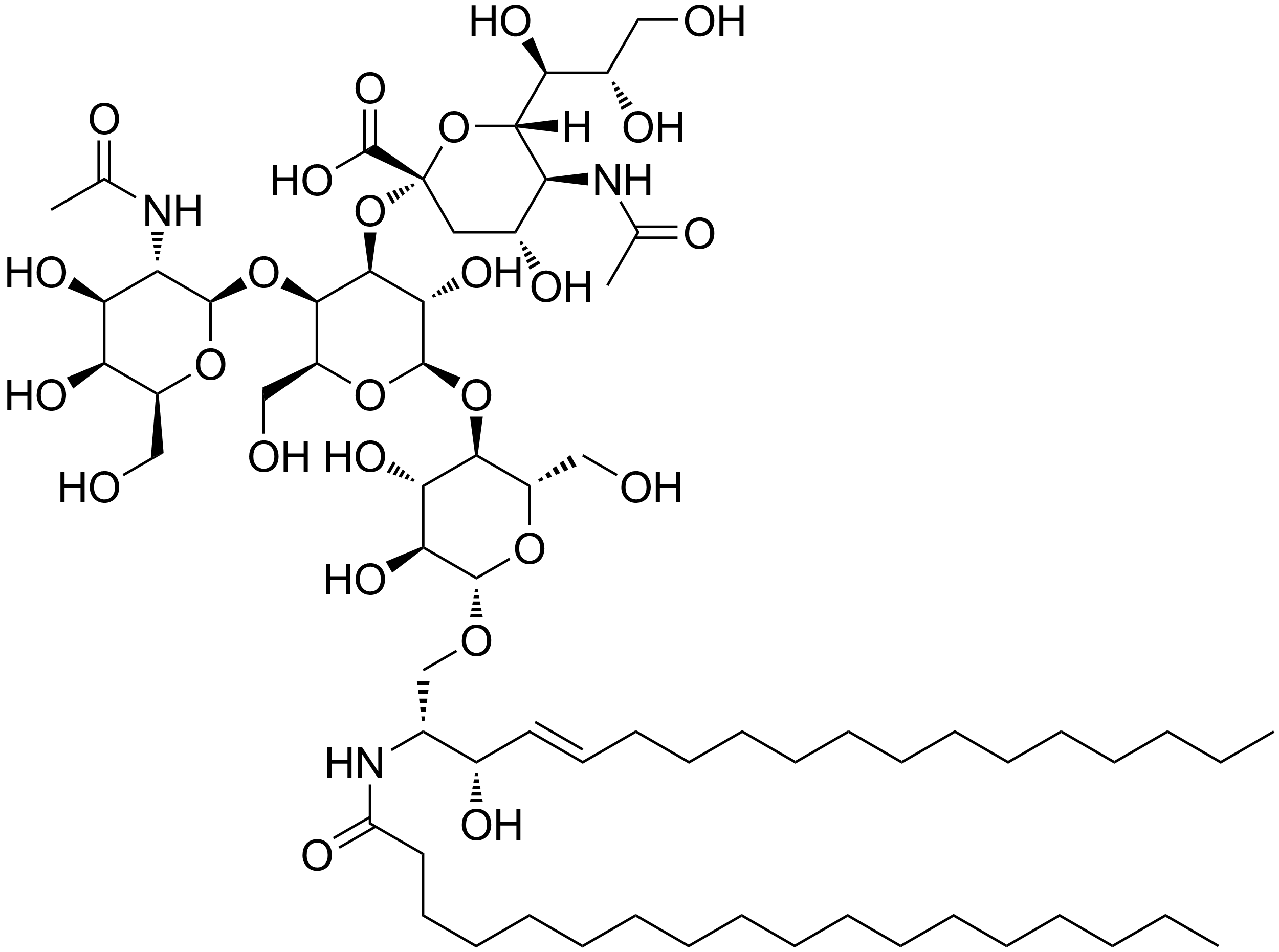 Chemical structure of GM2 ganglioside